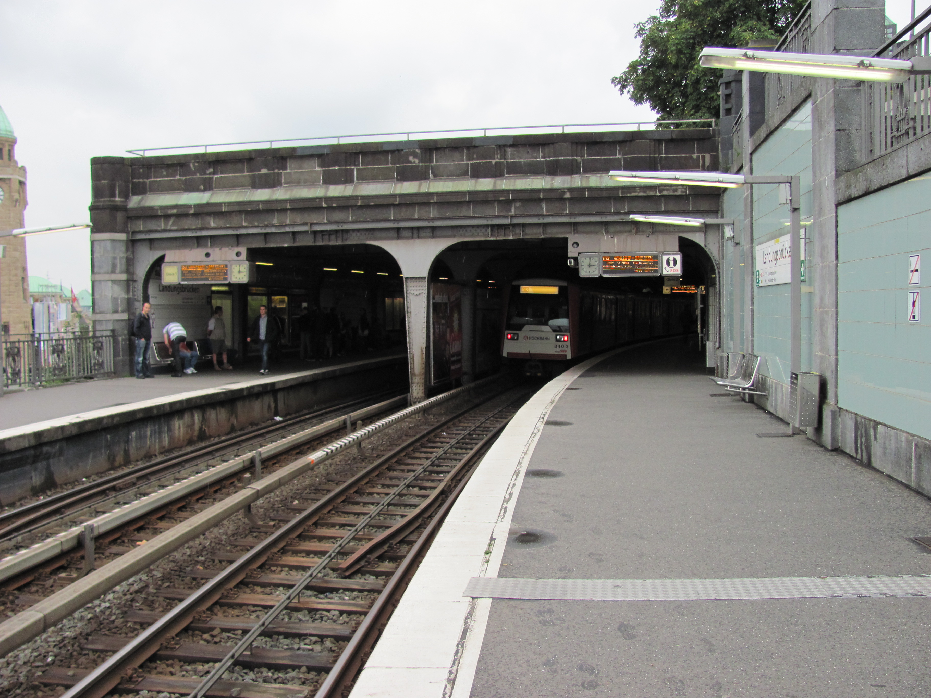 U-Bahn station Landungsbrücken in Hamburg, Germany